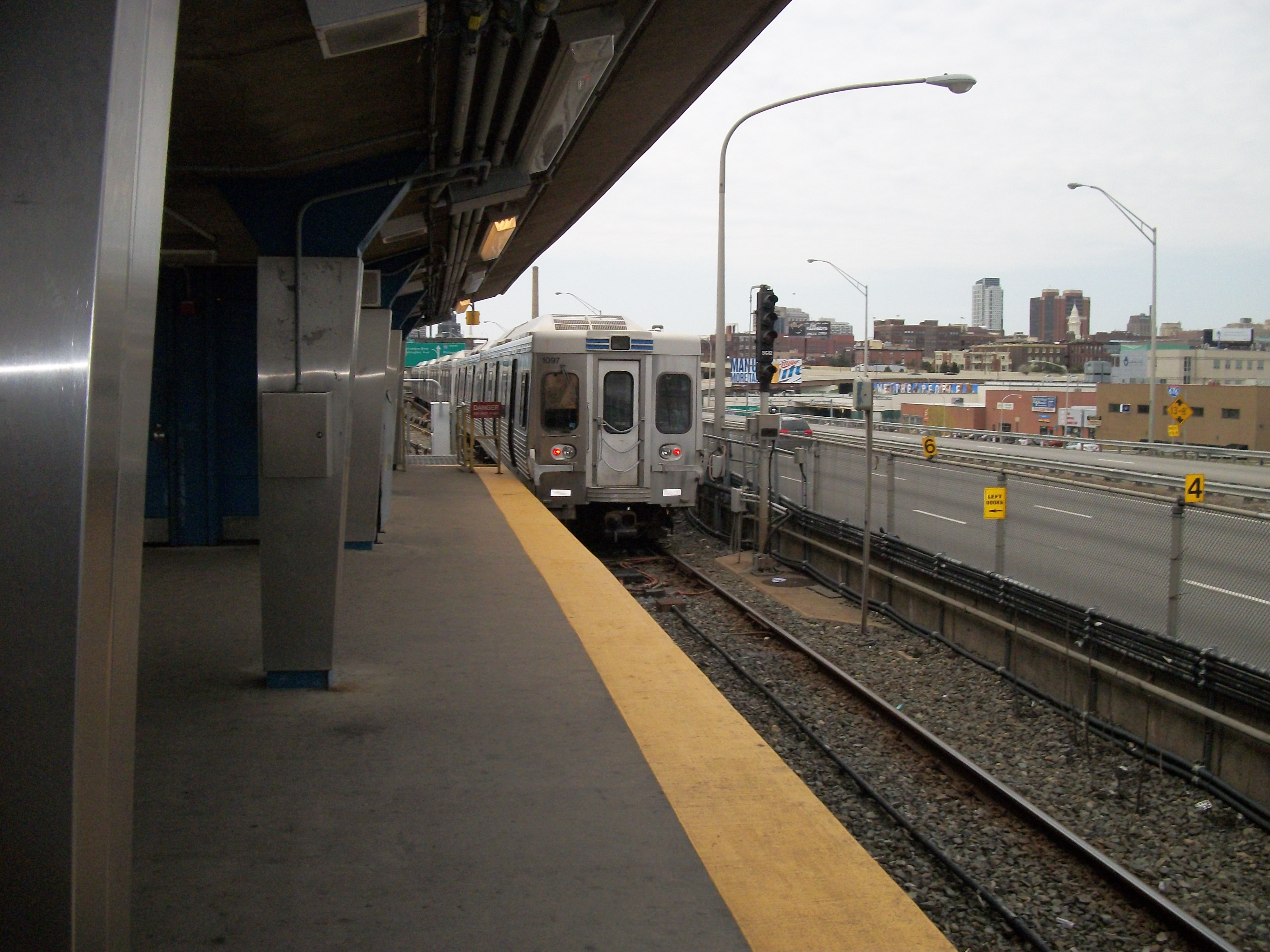 A train heads south and then west from the Spring Garden (SEPTA Market–Frankford Line station), in Philadelphia, Pennsylvania. The southbound lanes of Interstate 95 are noticeable here too.